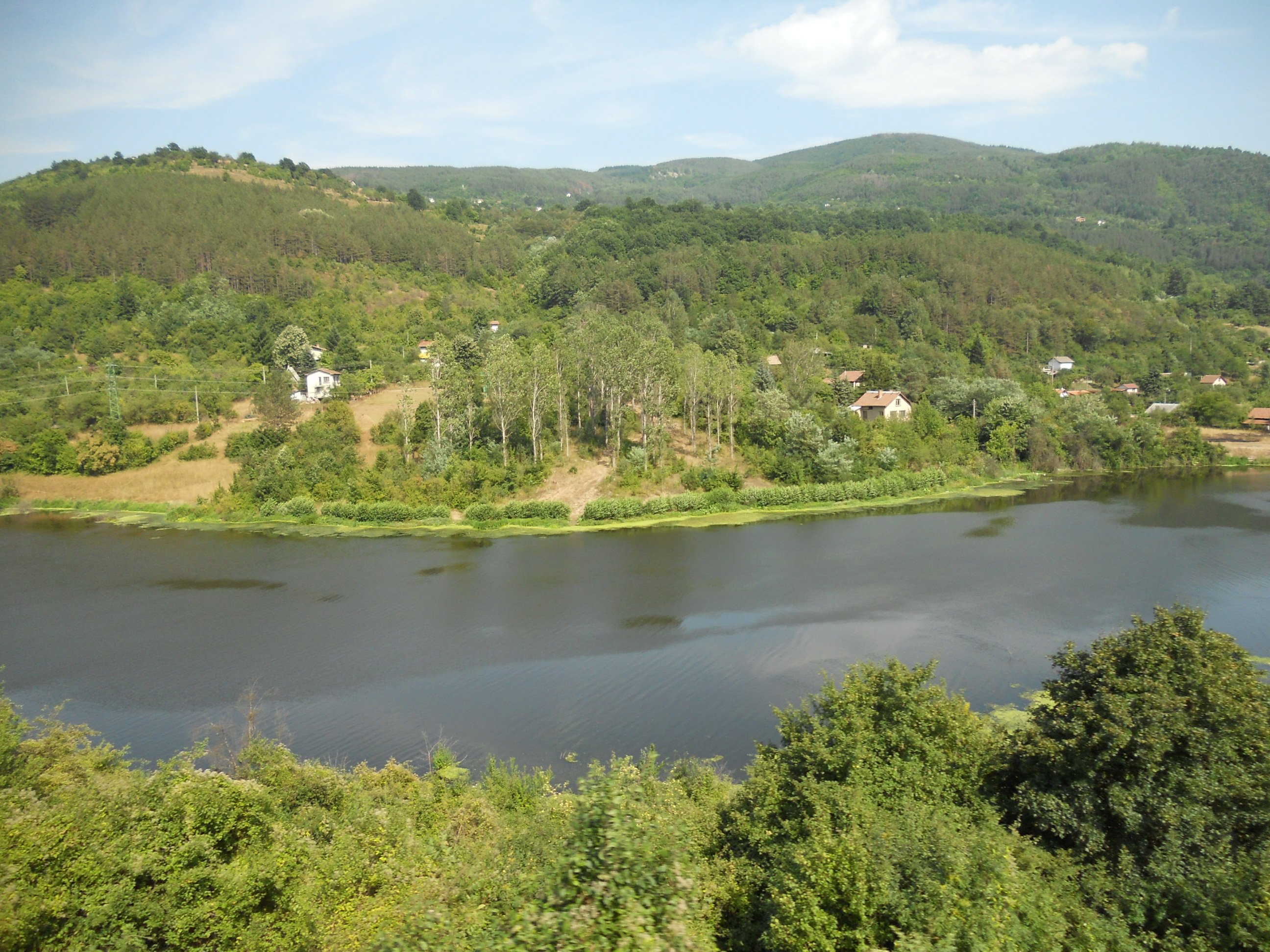 Stara Planina Mountain, Iskar Gorge